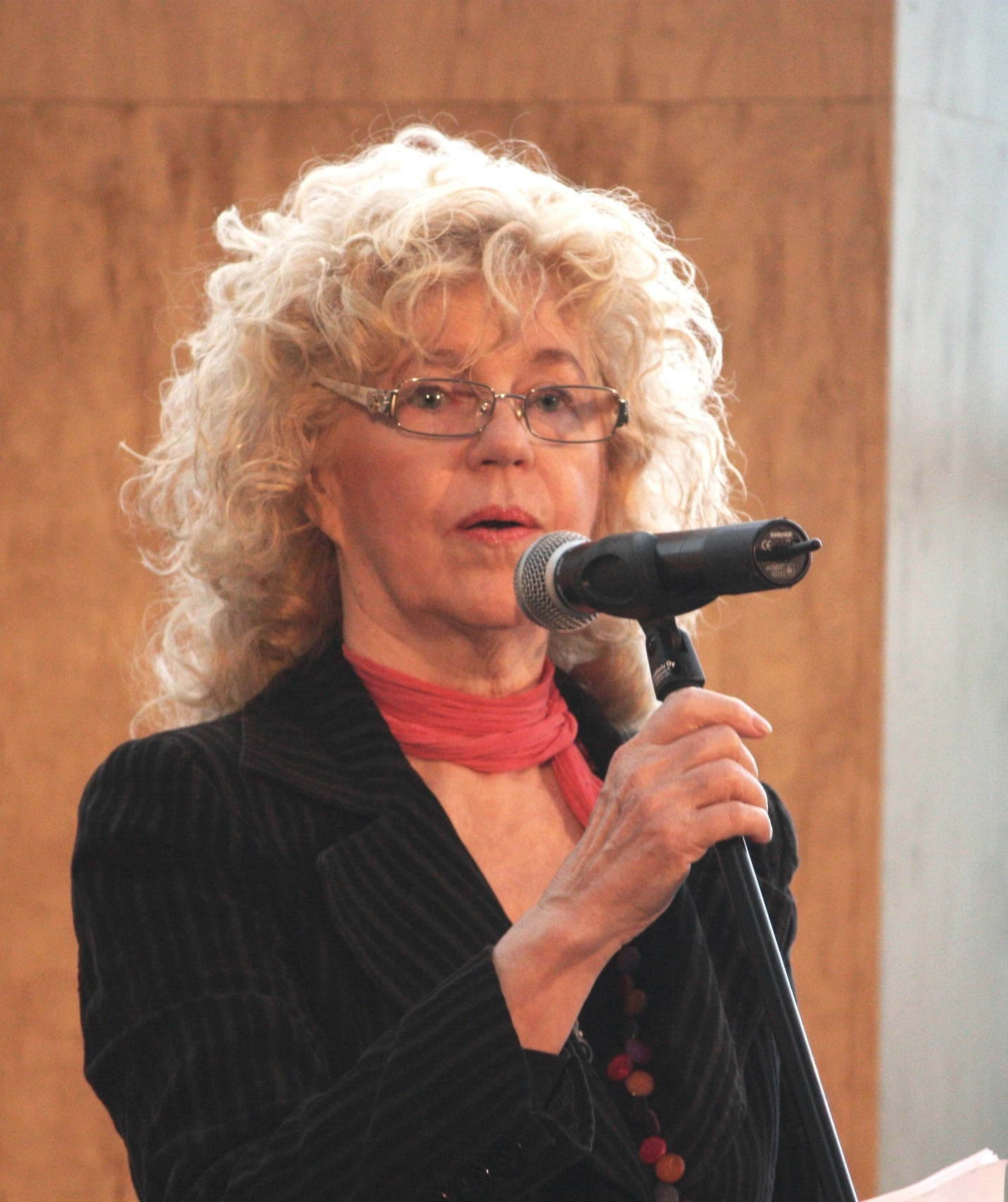 Finnish author Rakel Liehu was reading her poems on The Day of Aleksis Kivi and Finnish Literature at Mediatori in Helsinki.